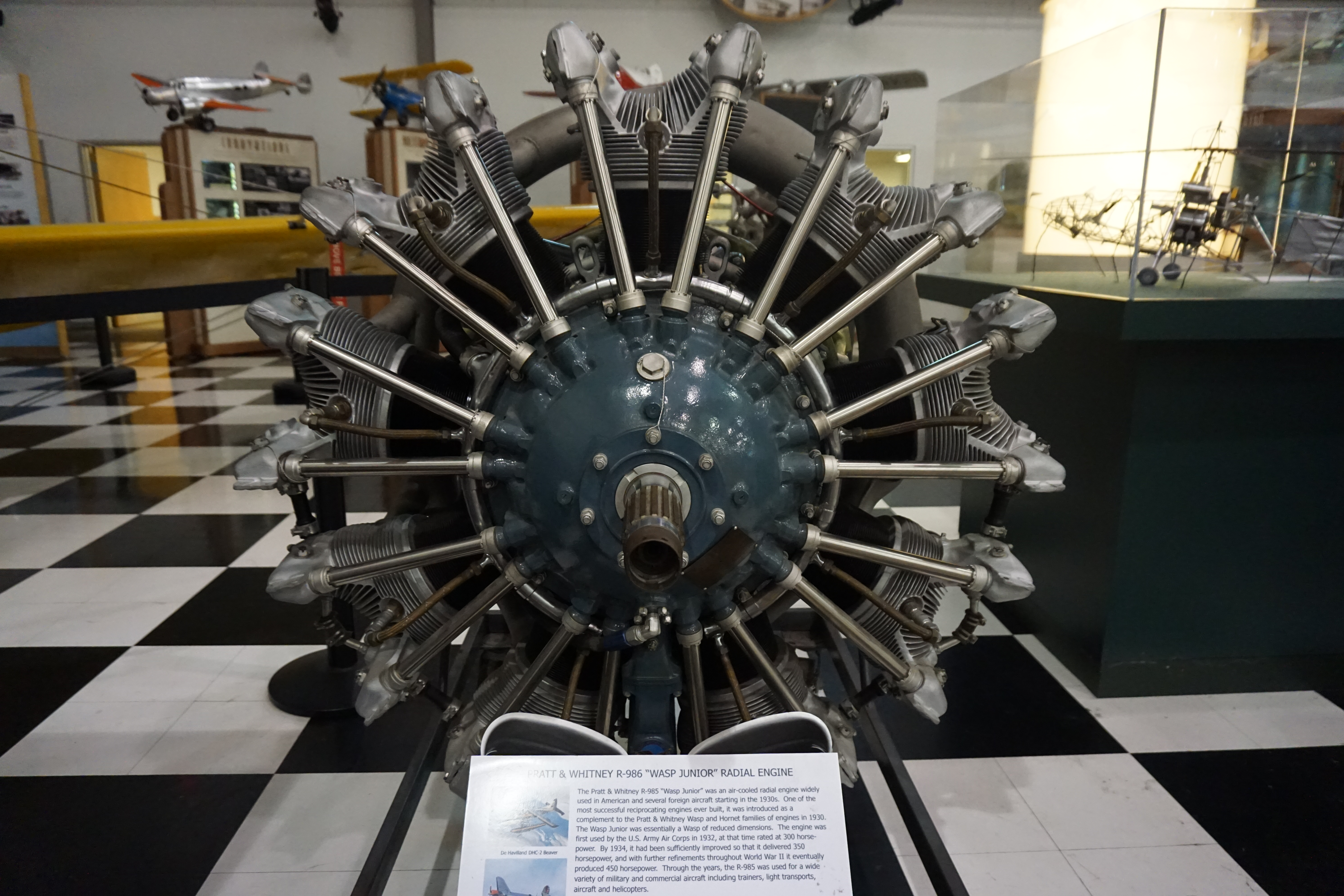 A Pratt & Whitney R-985 Wasp Junior radial engine on display at the Frontiers of Flight Museum at Dallas Love Field in Dallas, Texas (United States).